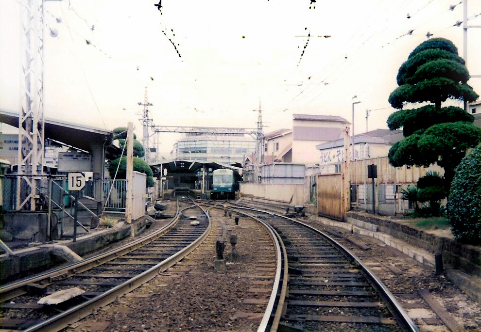 This was Keihan Keishin Line Keishin-Sanjo Station. This was taken in 1997/09.